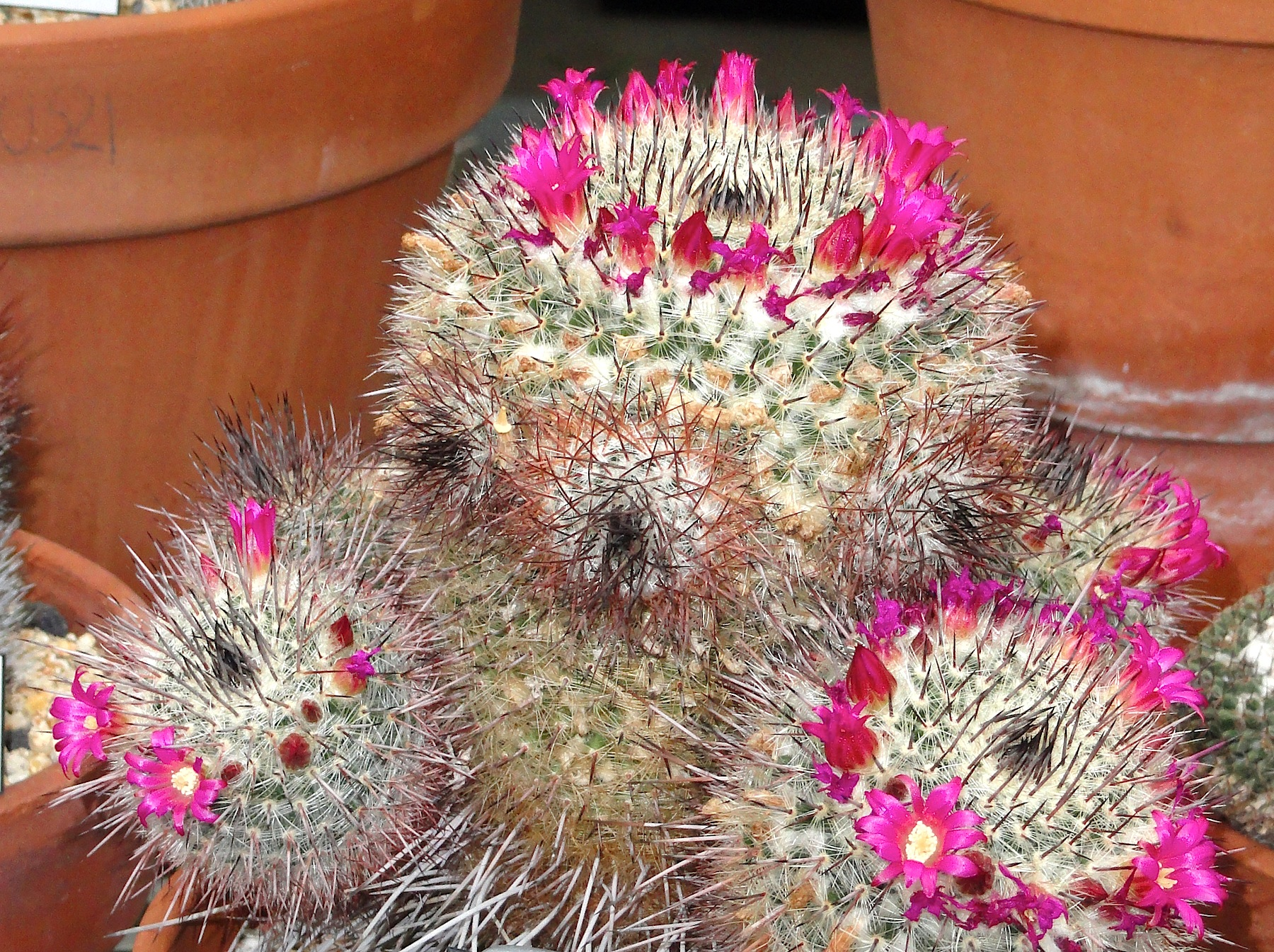 Mammillaria varieaculeata specimen in the University of California Botanical Garden, Berkeley, California, USA.